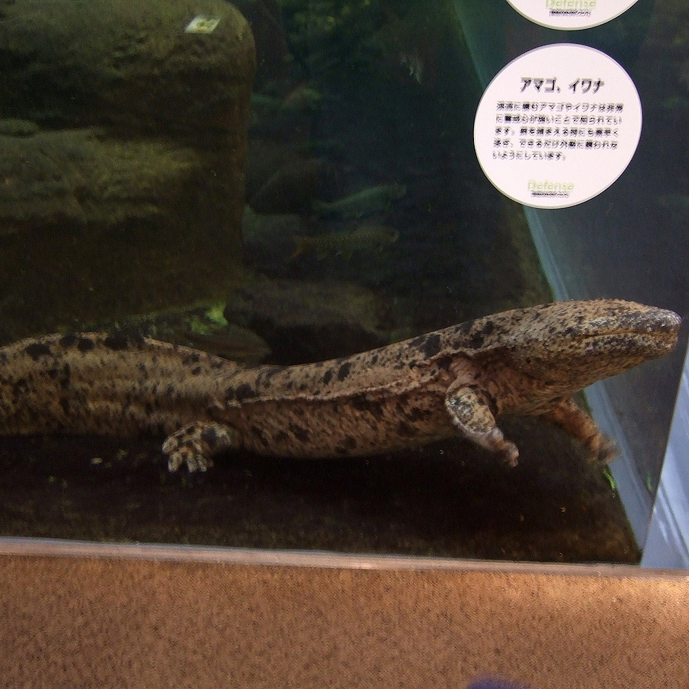 A Japanese giant salamander (Andrias japonicus).